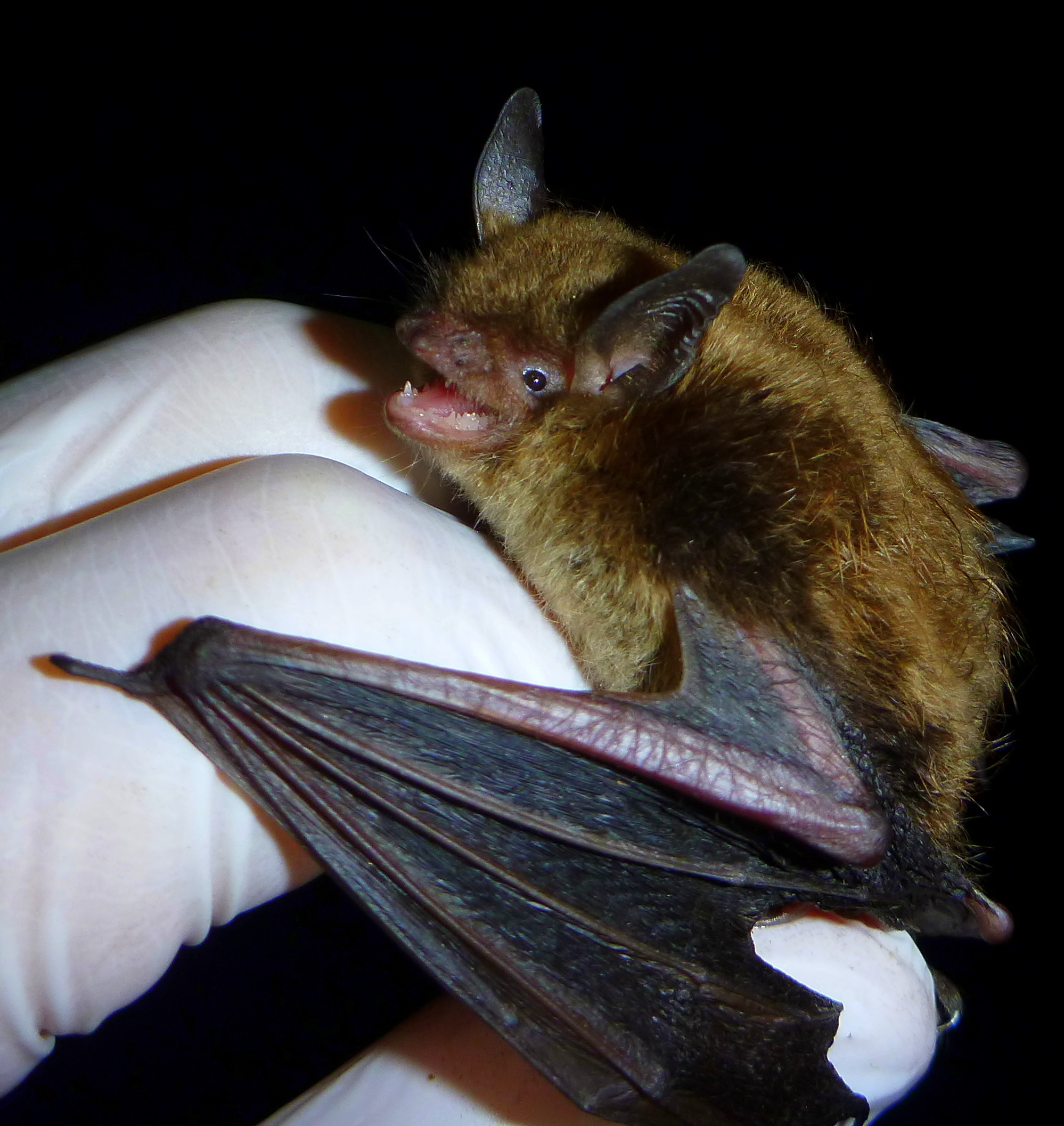 Little brown bat in Ohio, 2014